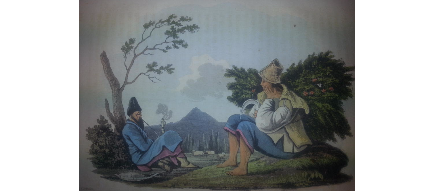 Hand coloured aquatint from the "A journey from India to England, through Persia, Georgia, Russia, Poland, and Prussia, in the year 1817" by Lieut. Col. John Johnson (1768 — 1846). Engraved by Theodore Henry Adolphus Fielding (1781 – 1851)